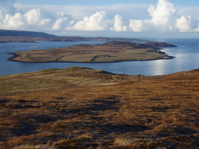 View towards Isle of Ewe Loch Ewe and the Minch beyond.